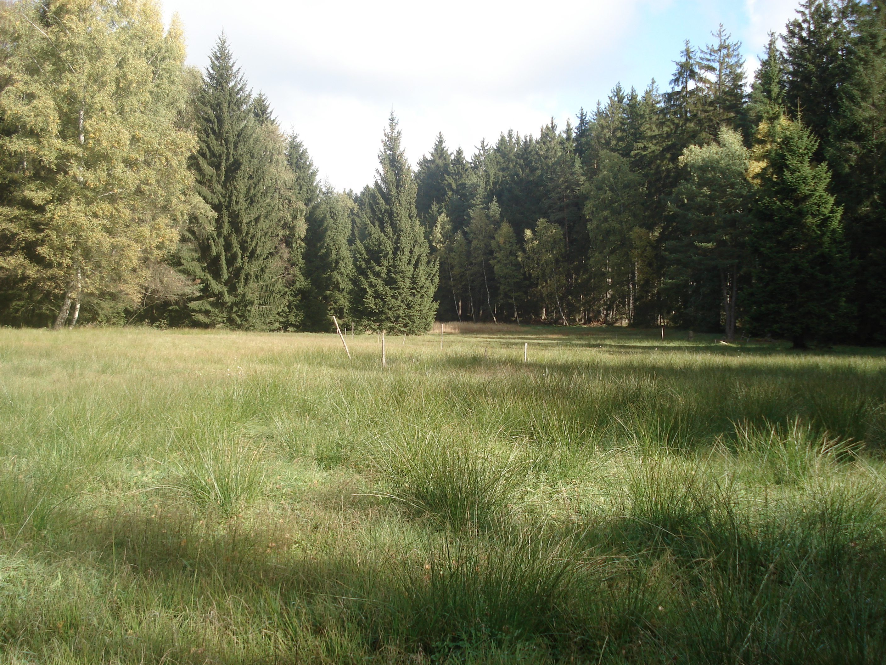 National nature reserve Hojkovské rašeliniště in Jihlava District, Czech Republic